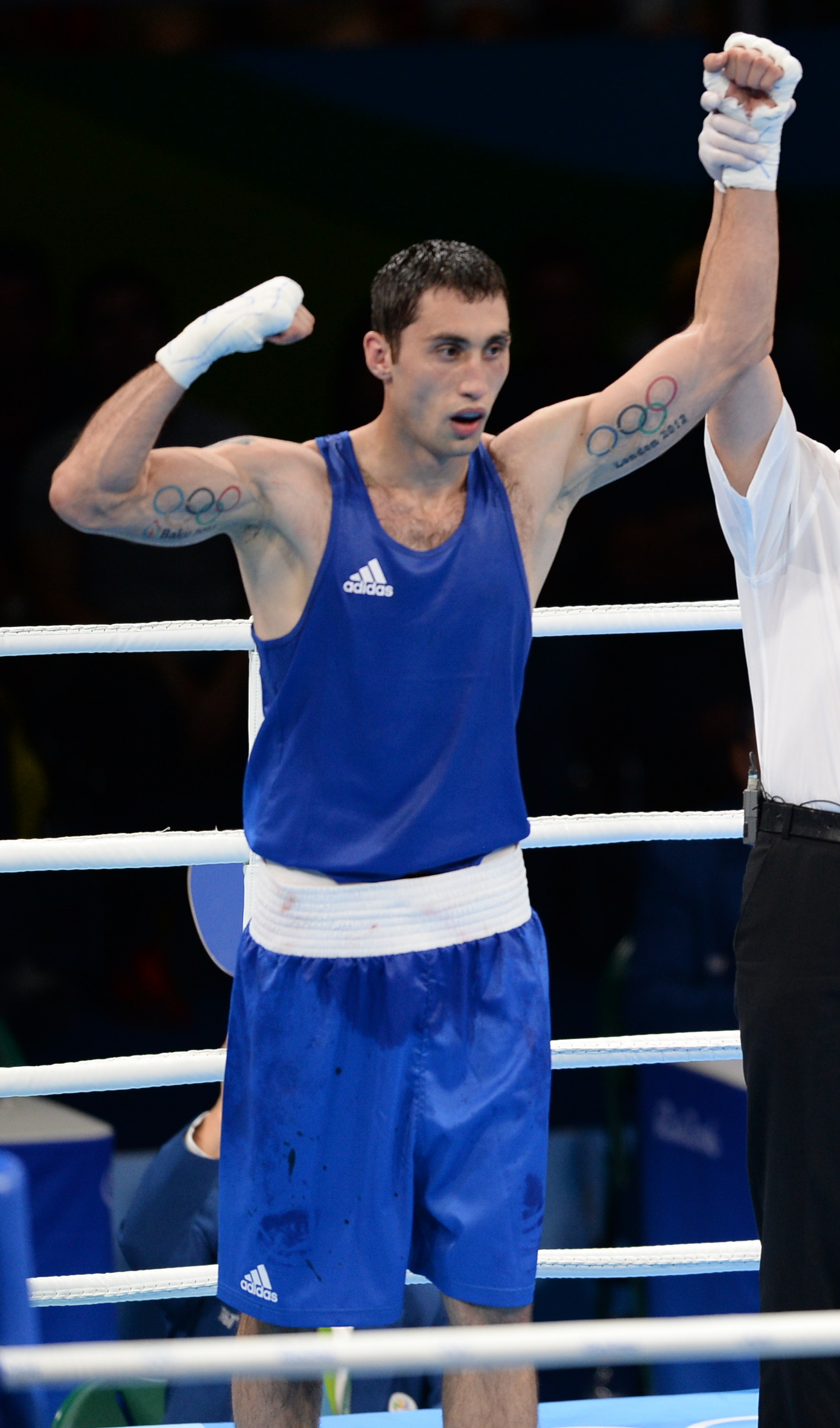 Boxing at the 2016 Summer Olympics, Mammadov vs Müllenberg